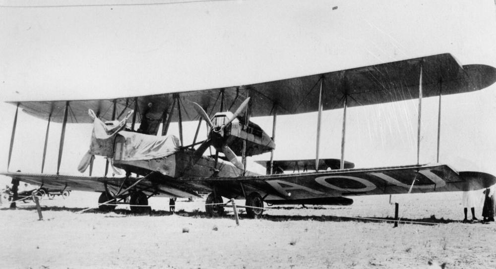 Ross and Keith Smith's Vickers Vimy biplane, 1919.